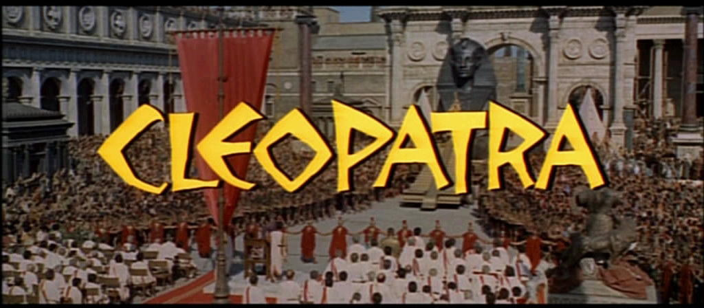 Screenshot from the trailer for the film Cleopatra.